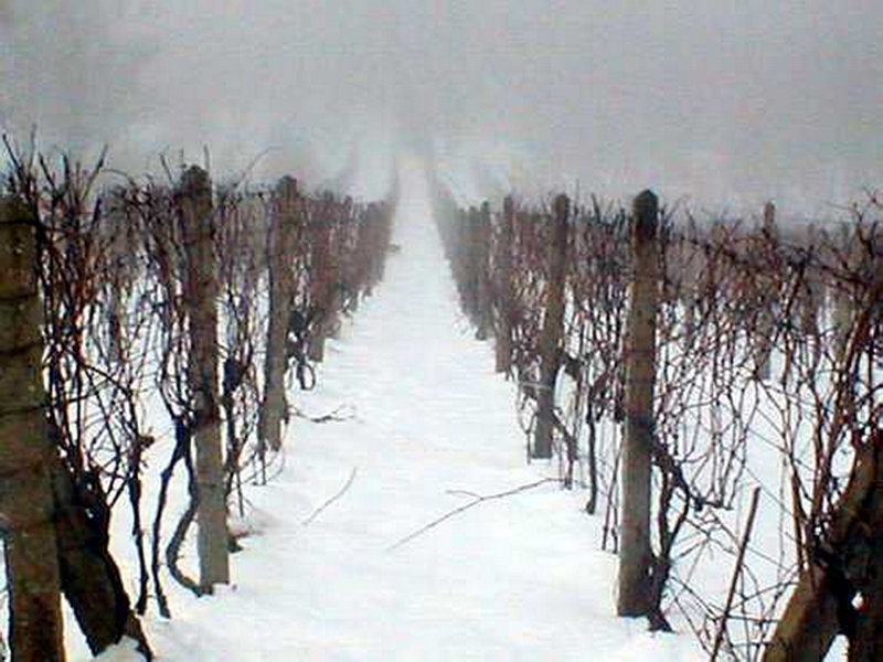 Topolovec - Wineyard